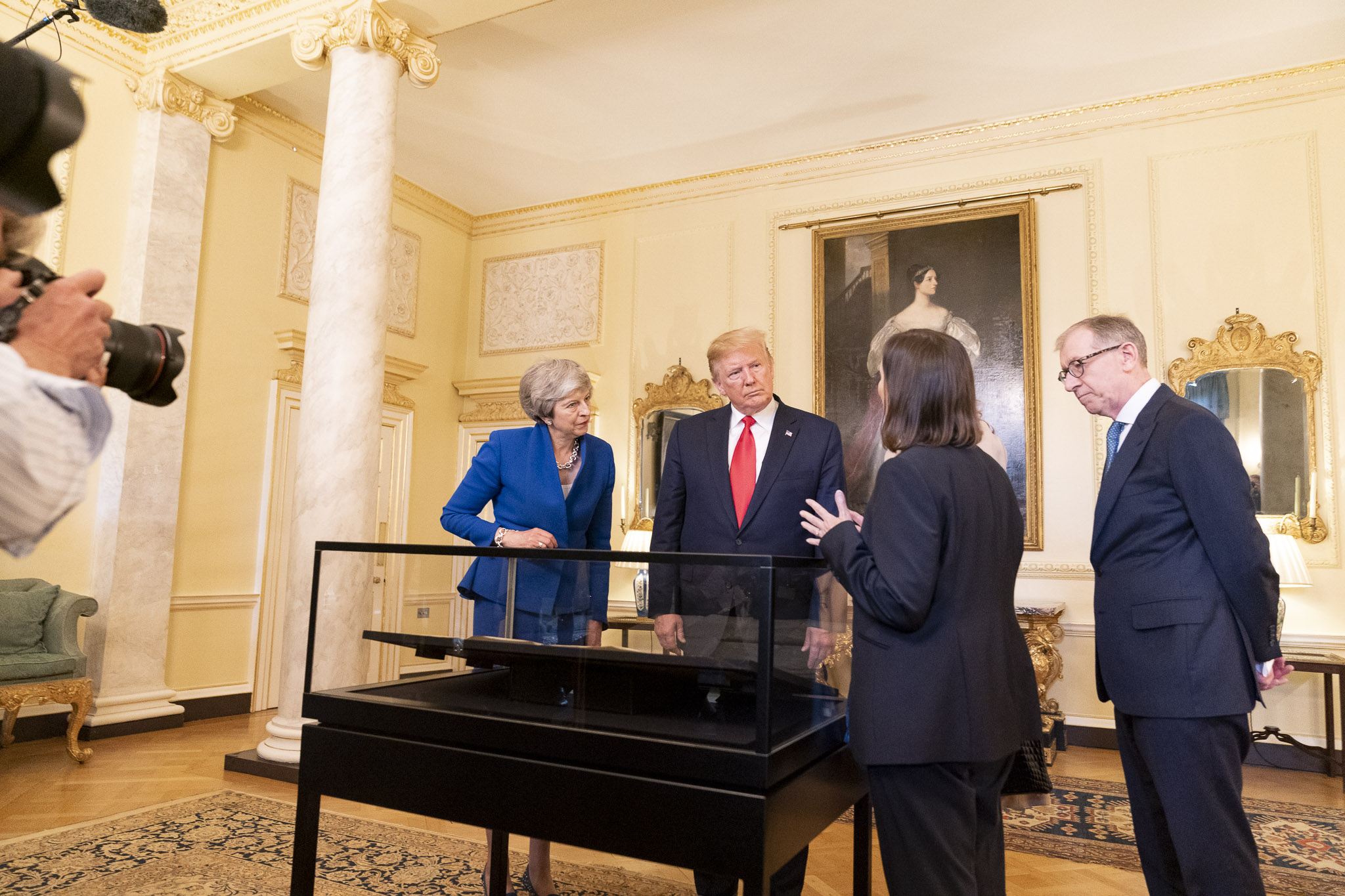 President Donald J. Trump along with British Prime Minister Theresa May and her husband Mr. Philip May view a displayed copy of the Declaration of Independence at No. 10 Downing Street Tuesday, June 4, 2019, in London. (Official White House Photo by Shealah Craighead)